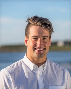 Josh Svec - Sales Associate with Coastal Winds Realty Ltd.